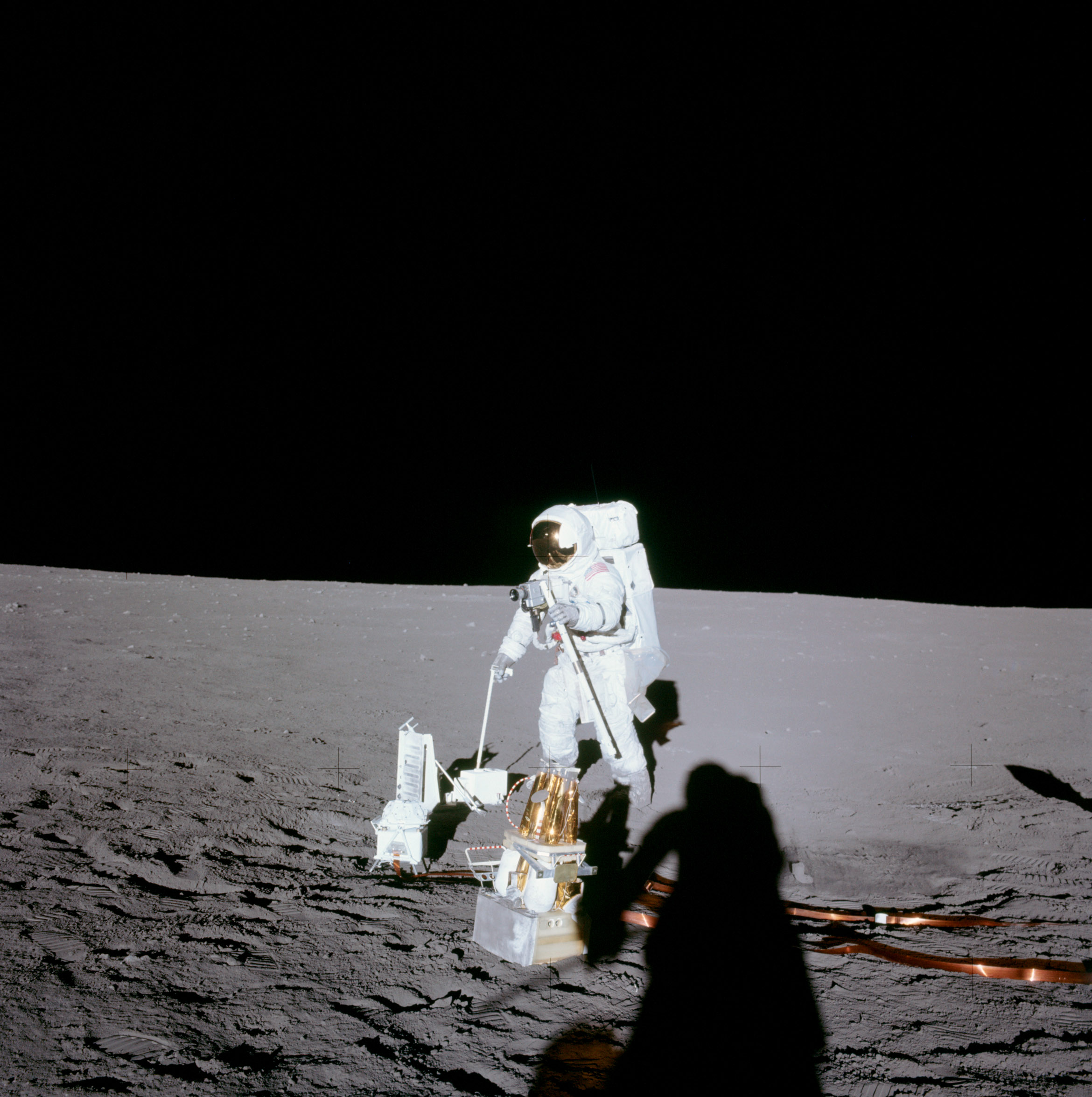 Pete Conrad works on the ALSEP.